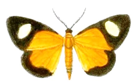 "New Lepidoptera Heterocera"